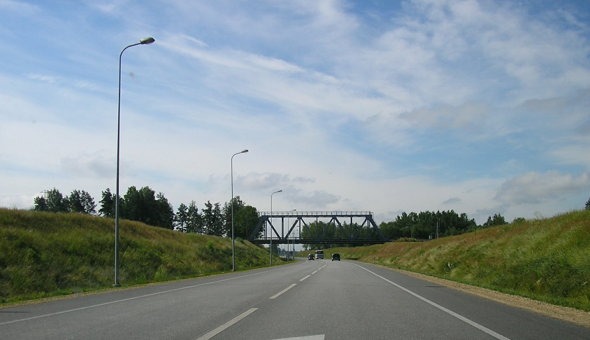 Road A7 near Iecava Railway stationLatviešu: Autoceļš A7 pie Iecavas stacijas